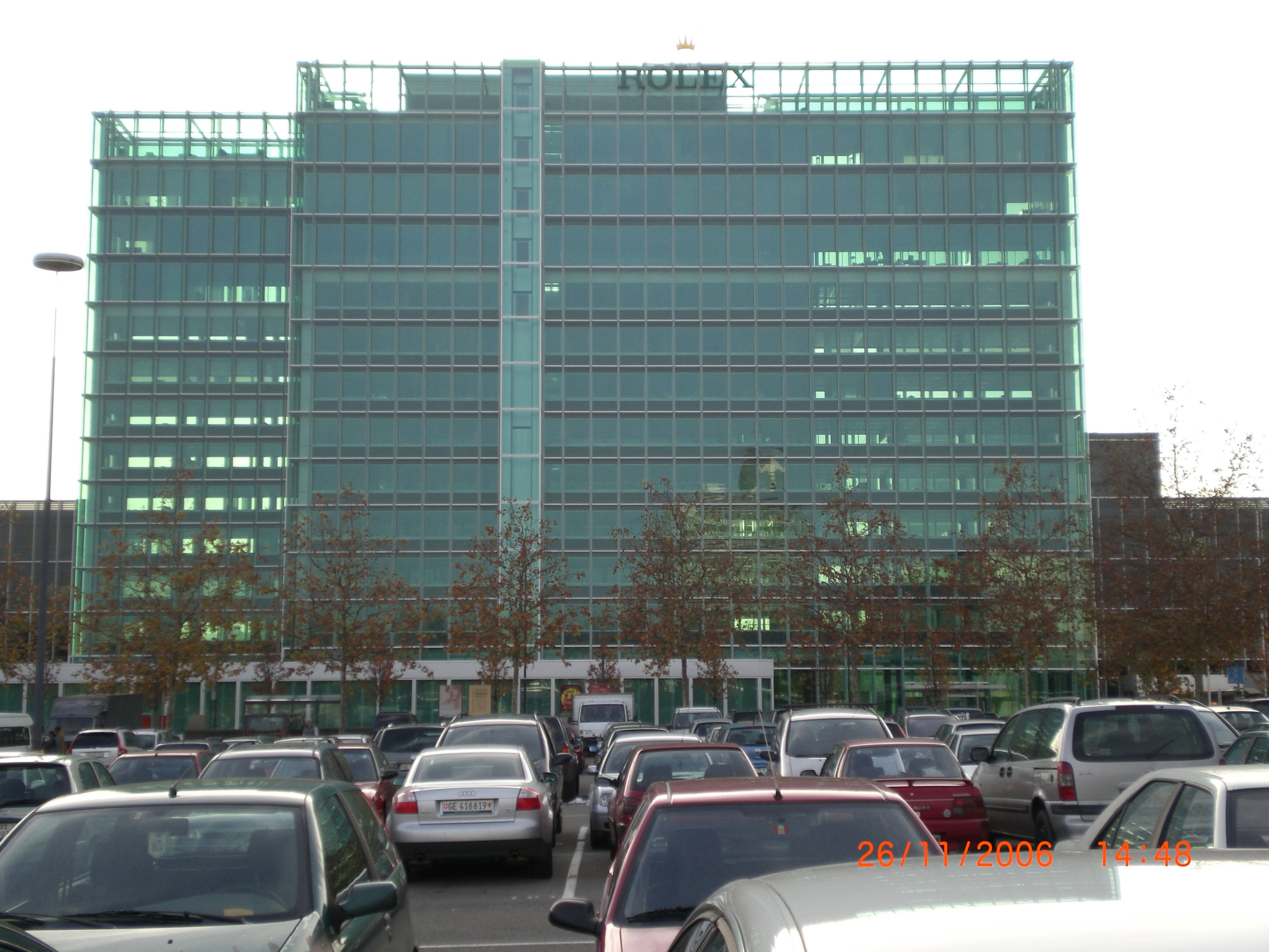 Rolex HQ building in Geneva, Switzerland